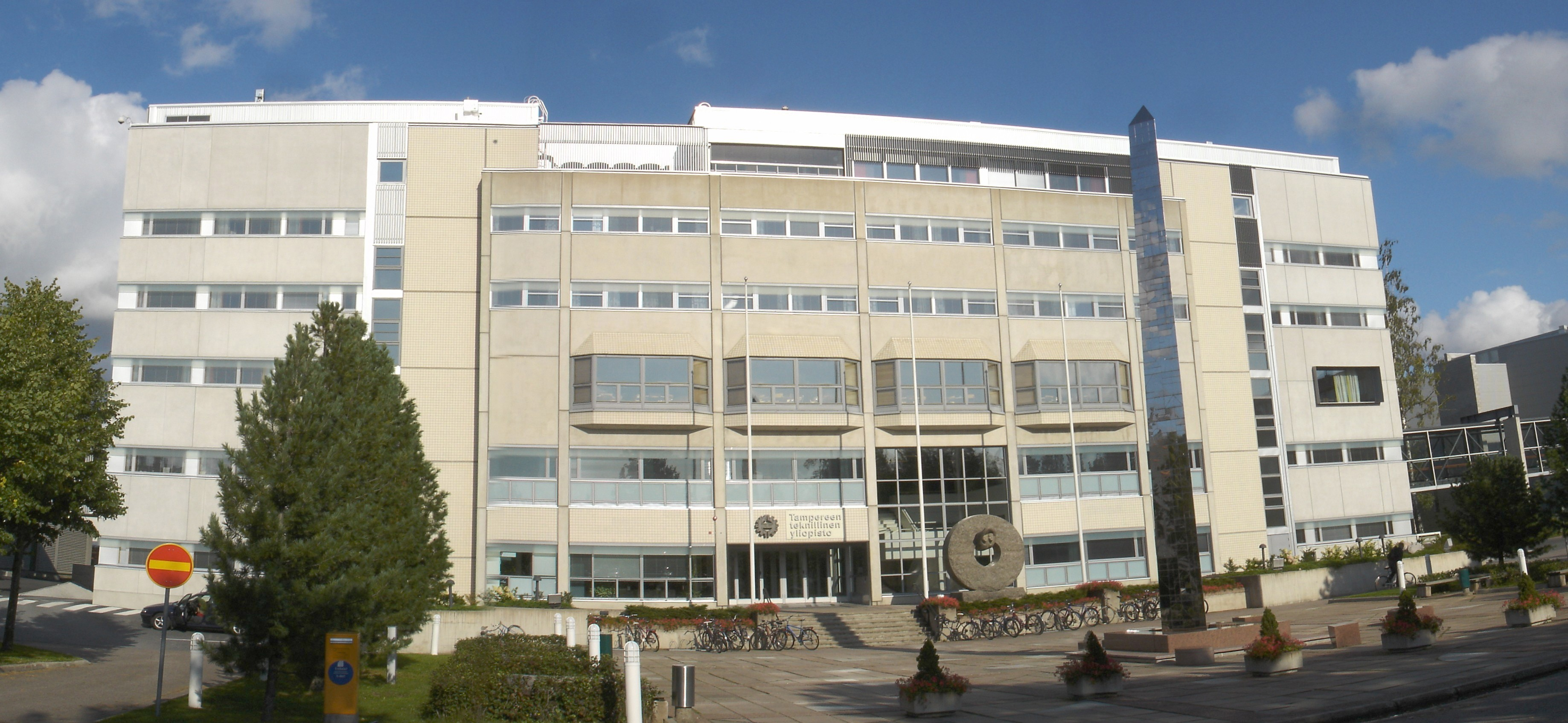 Tampere University of Technology main building.